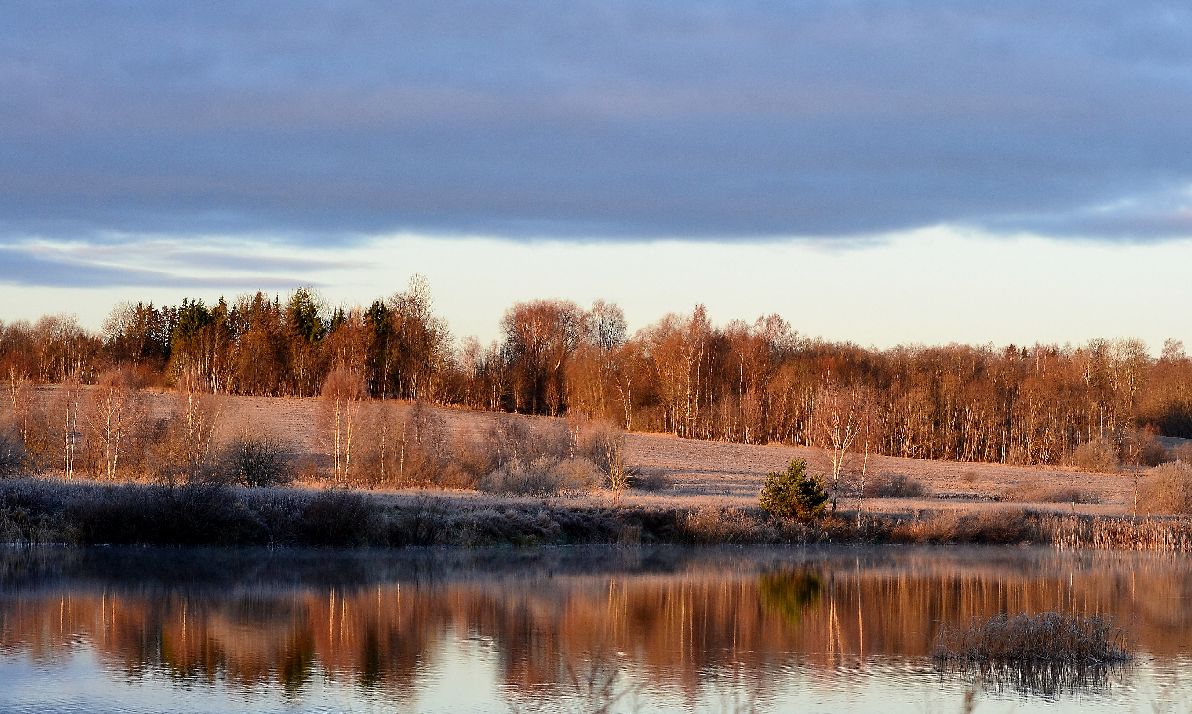 Gravel quarry.